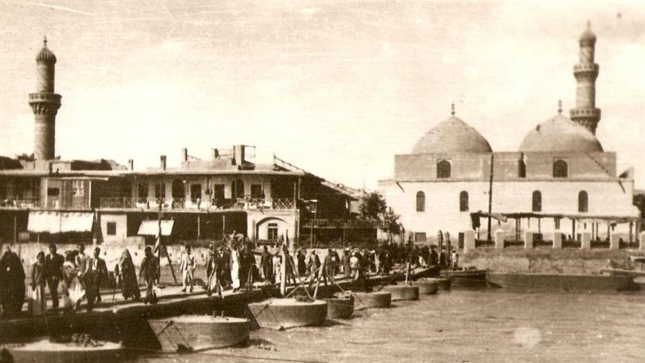 Al Gat'a Bridge Bridge (Currently Martyrs, "Shuhada"), Baghdad - 1930. Al Asafia Mosque can be seen too